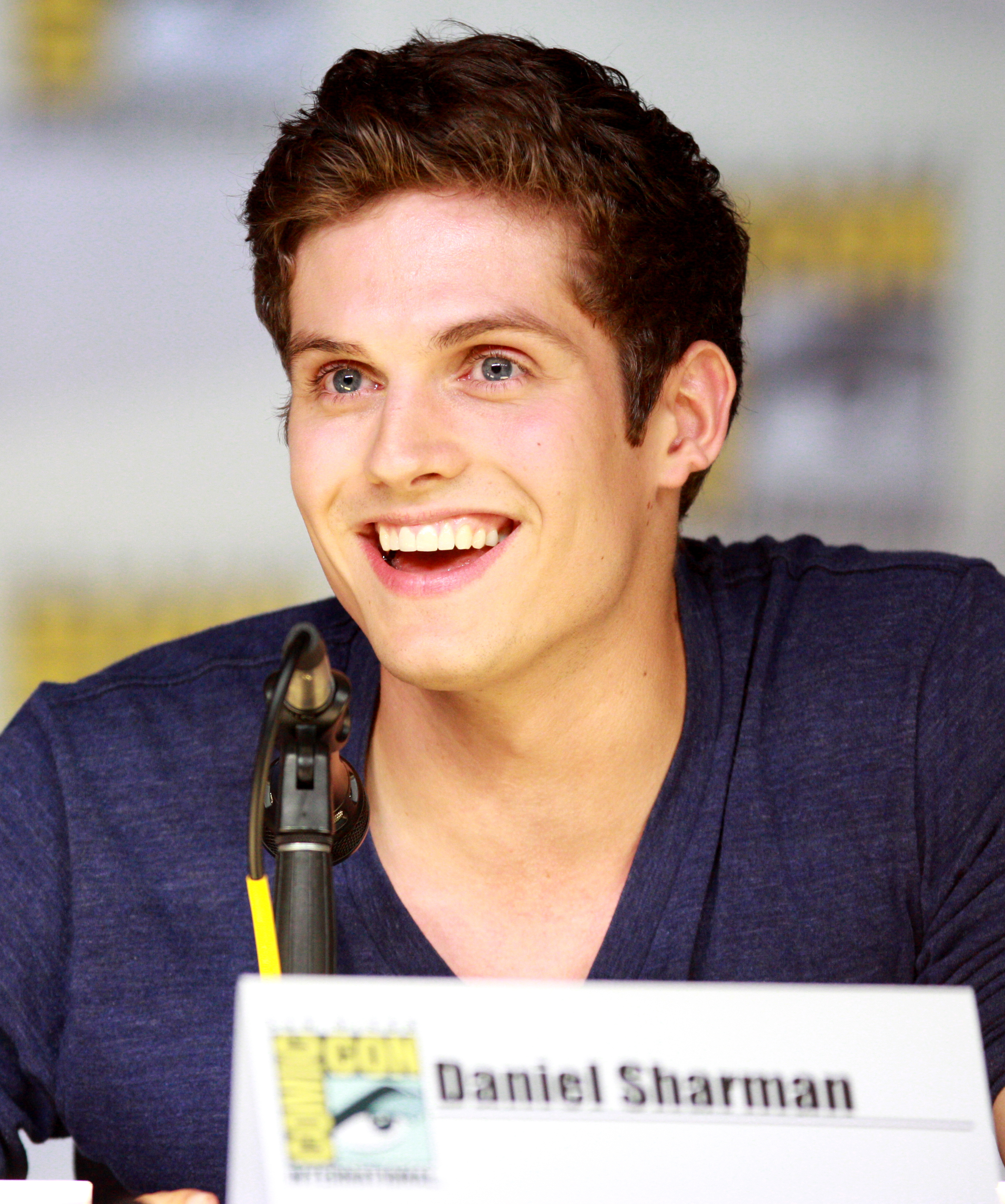 Daniel Sharman at the 2013 San Diego Comic Con International in San Diego, California.